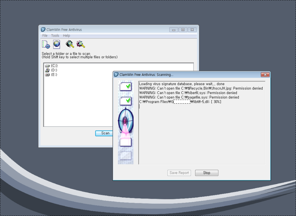 ClamAV window version